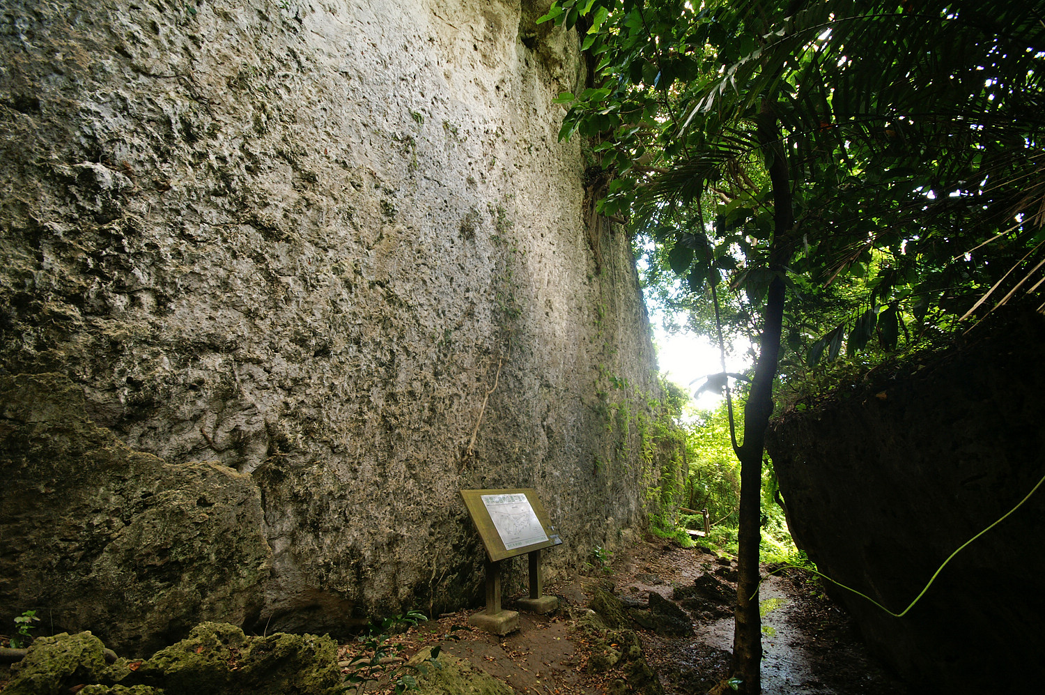 The Coral Lime on Ban Ping Hill, Kaohsiung, Taiwan.